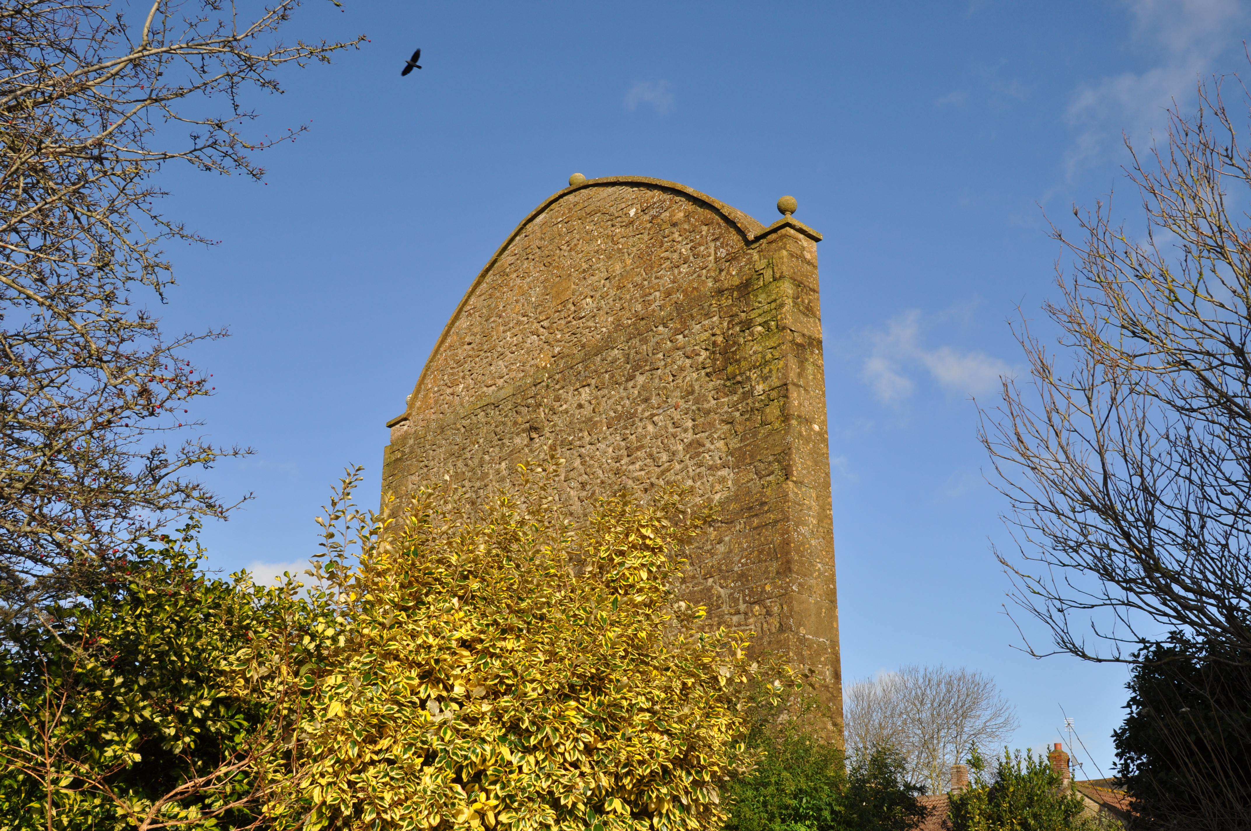 Fives Court Wall Wikidata has entry Q26629484 with data related to this item.